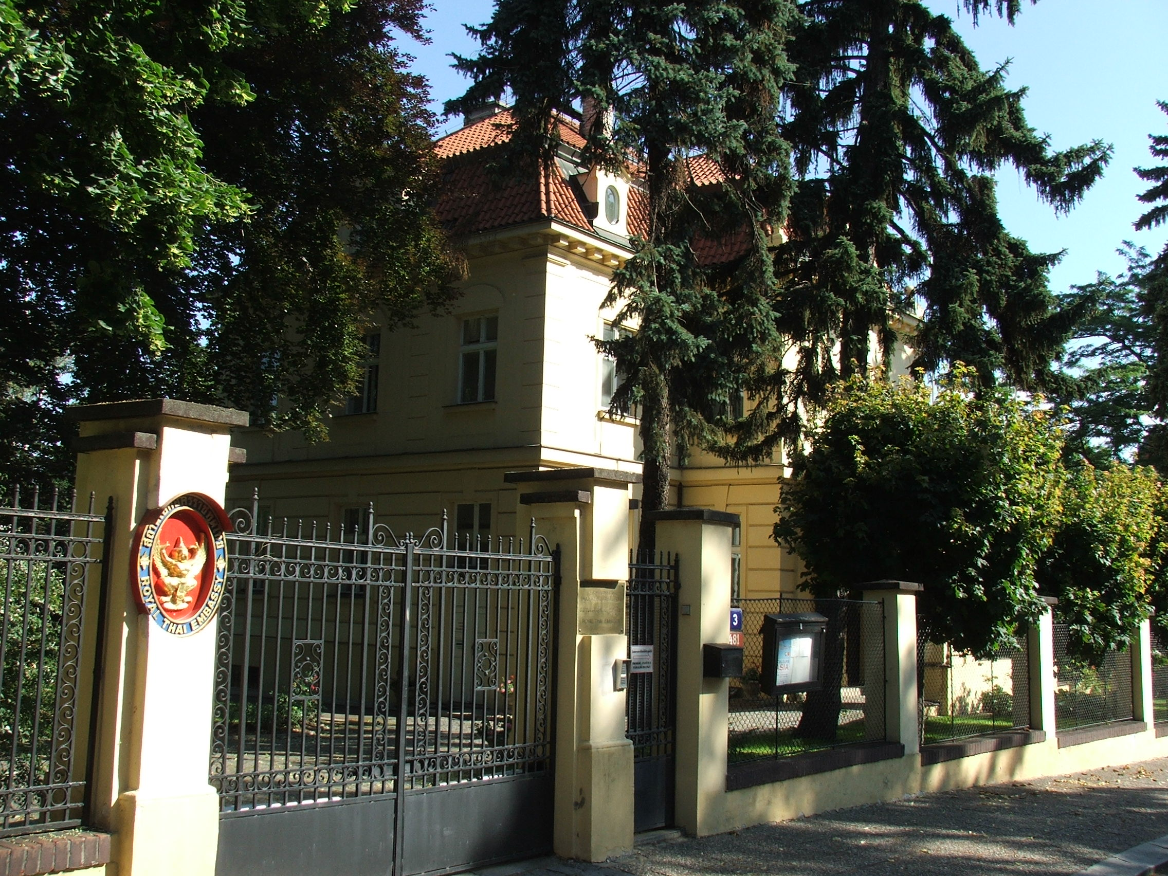 Embassy of Thailand in Prague, Czechia.